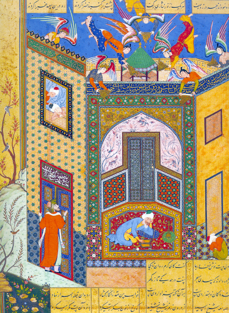 Image from Jami's Rose Garden. This 16th century manuscript is kept at The Arthur Sackler Gallery, in Washington, USA. It is kept under the name "Rosary of the Pious", and is located at folio 146b and 147a. The guy sitting in the center of the image is supposedly the mystic-poet Sa'di.